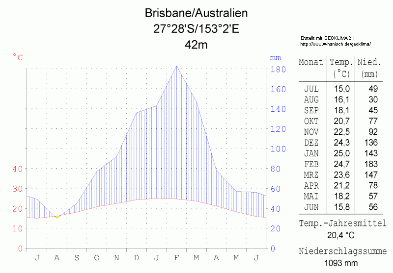 climate chart in the format by Walther and Lieth, metric, °Celsisus and millimeters, made with Geoklima 2.1